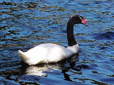 Description: Black-necked Swan - Source: own work - Location: Central Park Zoo, New York - Author: self, User:Stavenn